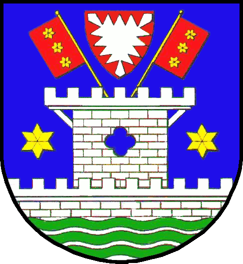 Coat of arms of Lütjenburg Blasonierung: In Blau über grün-silbernen Wellen eine durchgehende, torlose silberne Zinnenmauer, mit breitem Zinnenturm, der ein vierpassförmiges Fenster aufweist und mit zwei auswärts geneigten roten Fähnchen an goldenen Stangen und mit je drei sechsstrahligen goldenen Sternen übereinander besteckt ist; zwischen den Fähnchen ein roter Schild mit silbernem Nesselblatt; beiderseits des Turmes ein sechsstrahliger goldener Stern.